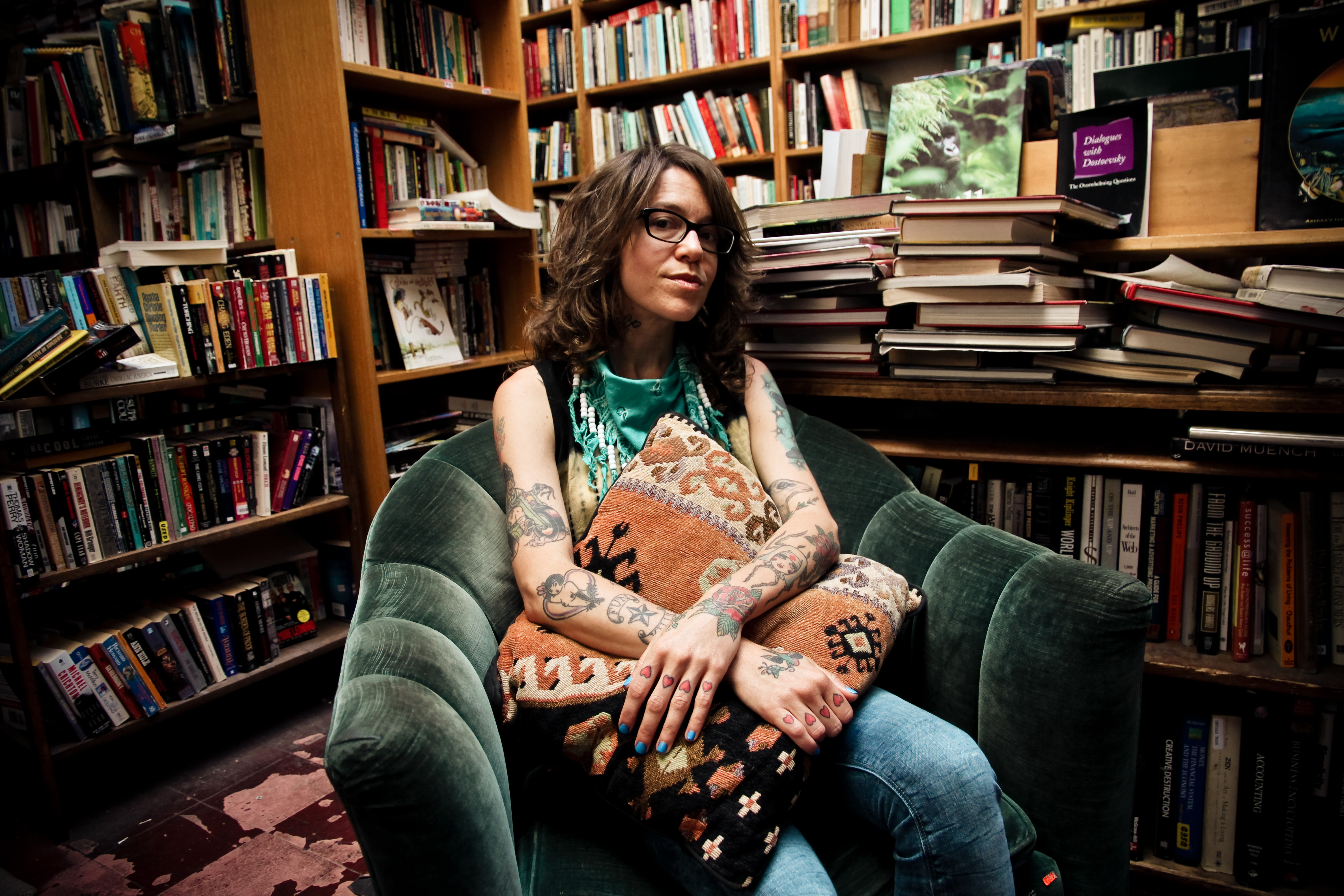 Michelle Tea